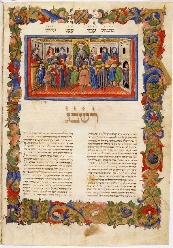 Arba'ah Turim. The manuscript, a Jewish juridic text, is divided into four main sections containing prescriptions for prayer, butchering and eating, family life and the administration of justice. The colophon tells us that the manuscript was written in Mantua in 1435. The style of the decorationessentially confirms this. The first page of each of the four books presents a precious miniature depicting the themes of the book itself, enriched by a floral border. The image displayed is f.220r, the first page of the third book, dedicated to marriage and to the laws governing family life. The miniature represents a nuptial scene.